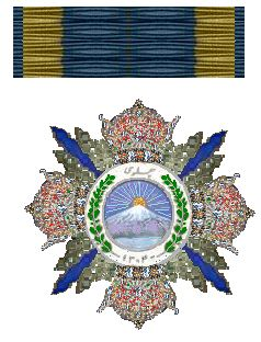 Order of Pahlevi